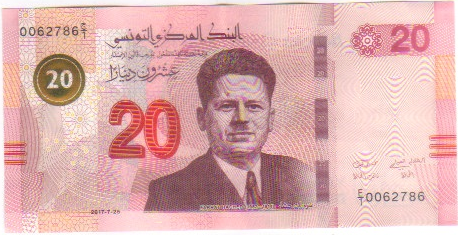 New 20 TND banknote issued in 25.07.2017